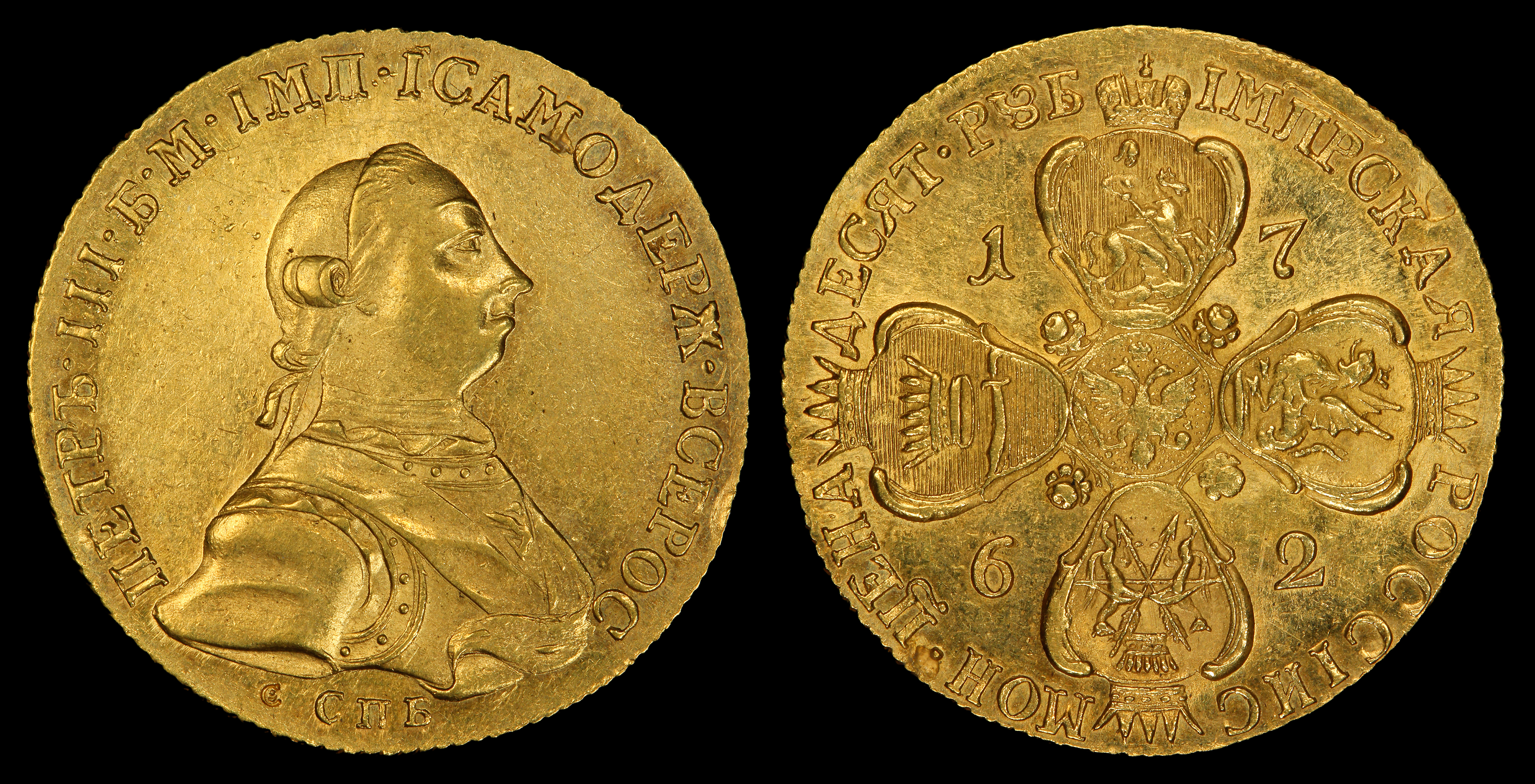 Russia 1762 10 Roubles